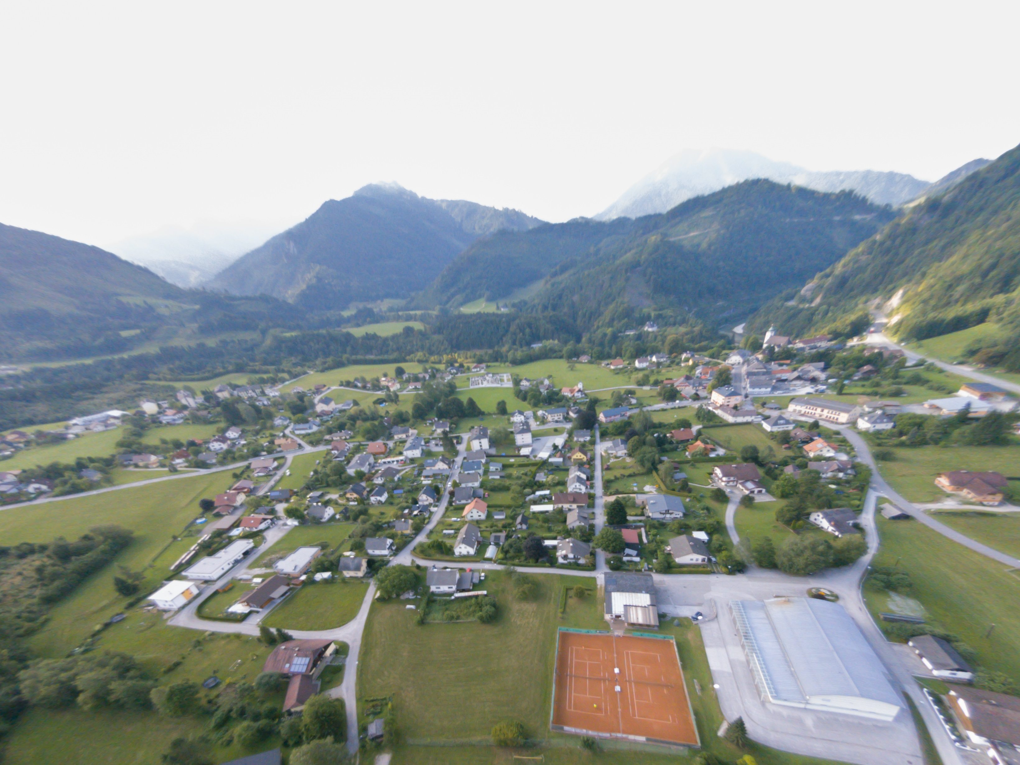 Aerial Photograph of Altenmarkt bei Sankt Gallen (with lens correction)